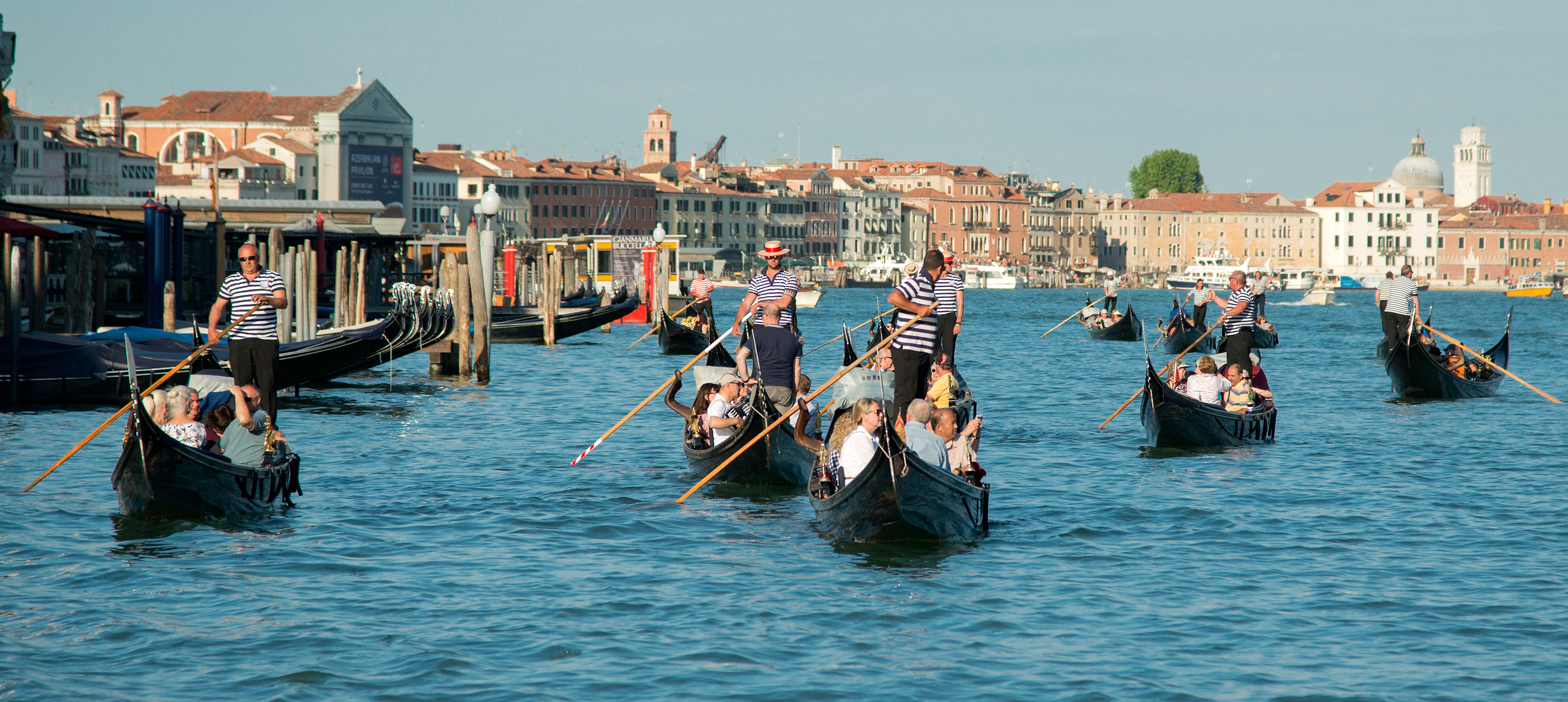 A group of gondolas on the busy Grand Canal